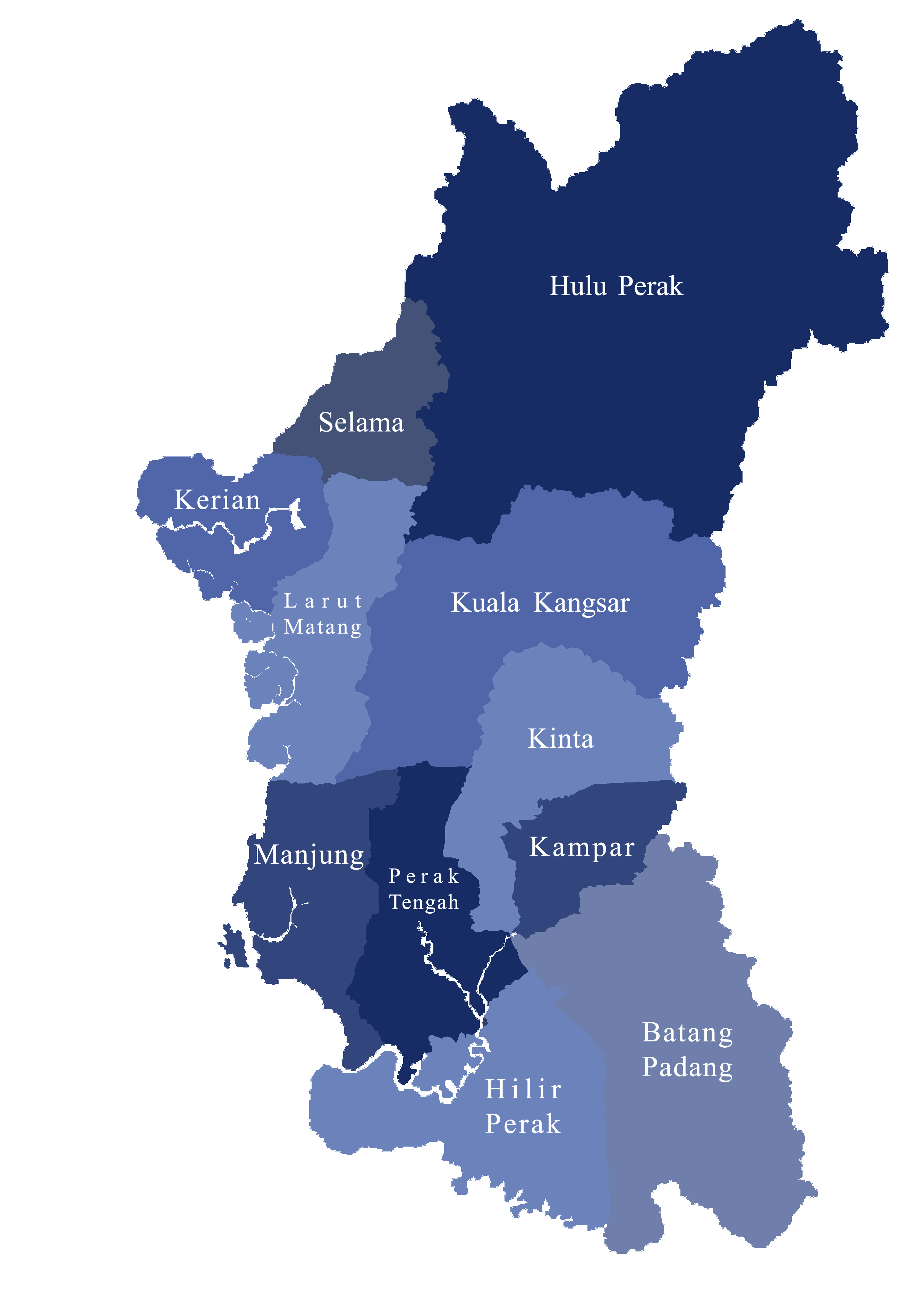 10 Districts in the State of Perak